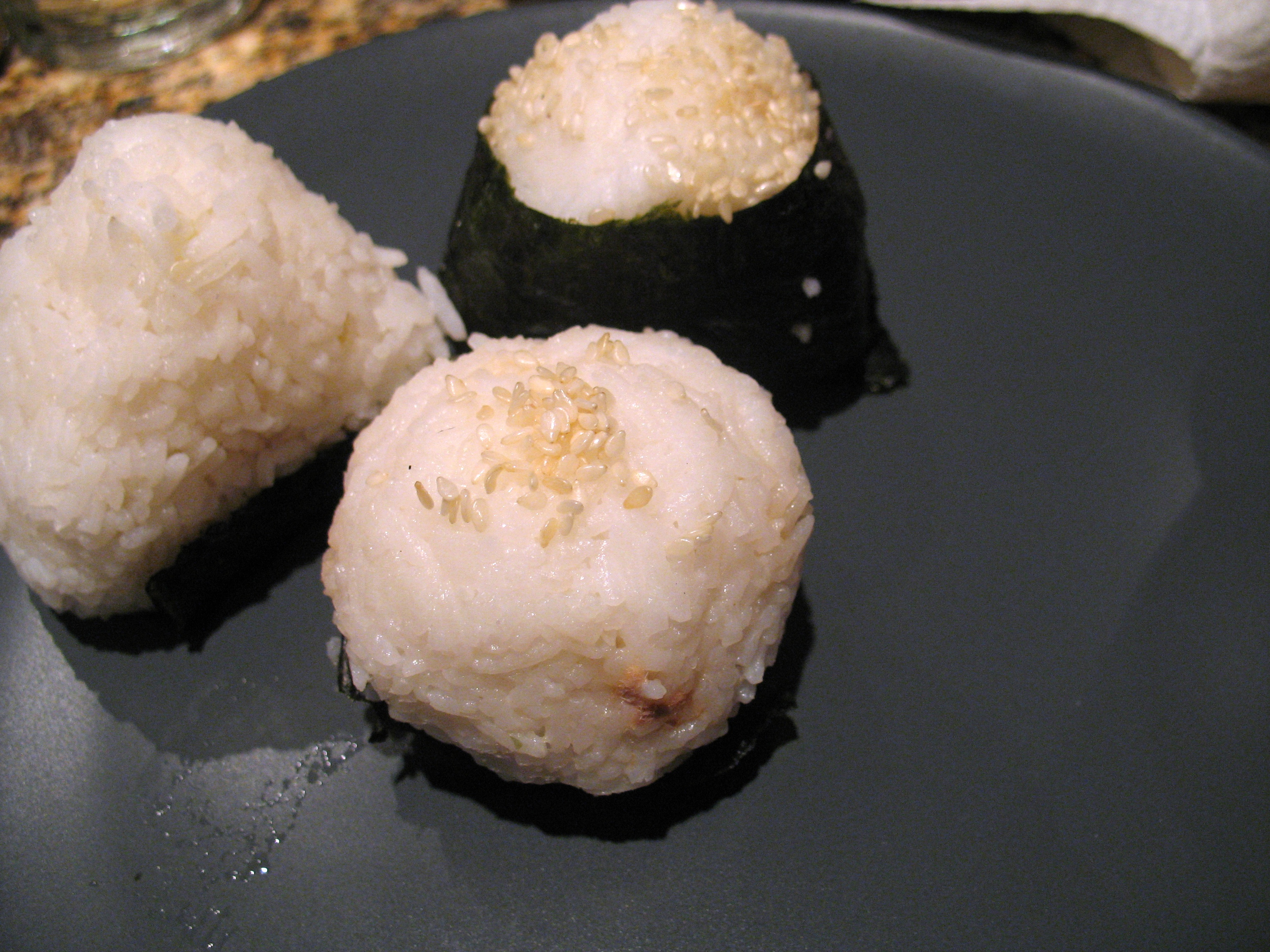 I made little onigiri for my contribution to the dinner.